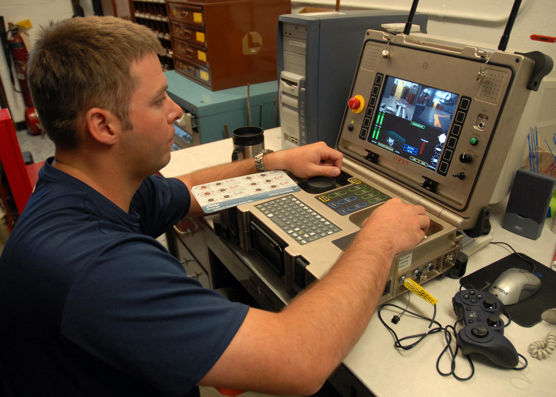 LA PUSH, Wash. (June 24, 2009) Explosive Ordnance Disposal Technician 1st Class Ryan Rigdon, assigned to Explosive Ordnance Disposal Mobile Unit (EODMU) 11, Det. Fallon, operates a PackBot explosive detecting robot during explosive handling training at U.S. Coast Guard Station Quillayute River, Wash. during the Homeland Defense Interoperability Exercise. Navy explosive ordnance disposal technicians and divers from the Northwest region met with U.S. Coast Guardsmen in La Push, Wash. for training focusing on identifying various kinds of explosives and handling diving medical emergencies. (U.S. Navy photo by Mass Communication Specialist 2nd Class Chantel M. Clayton/Released)